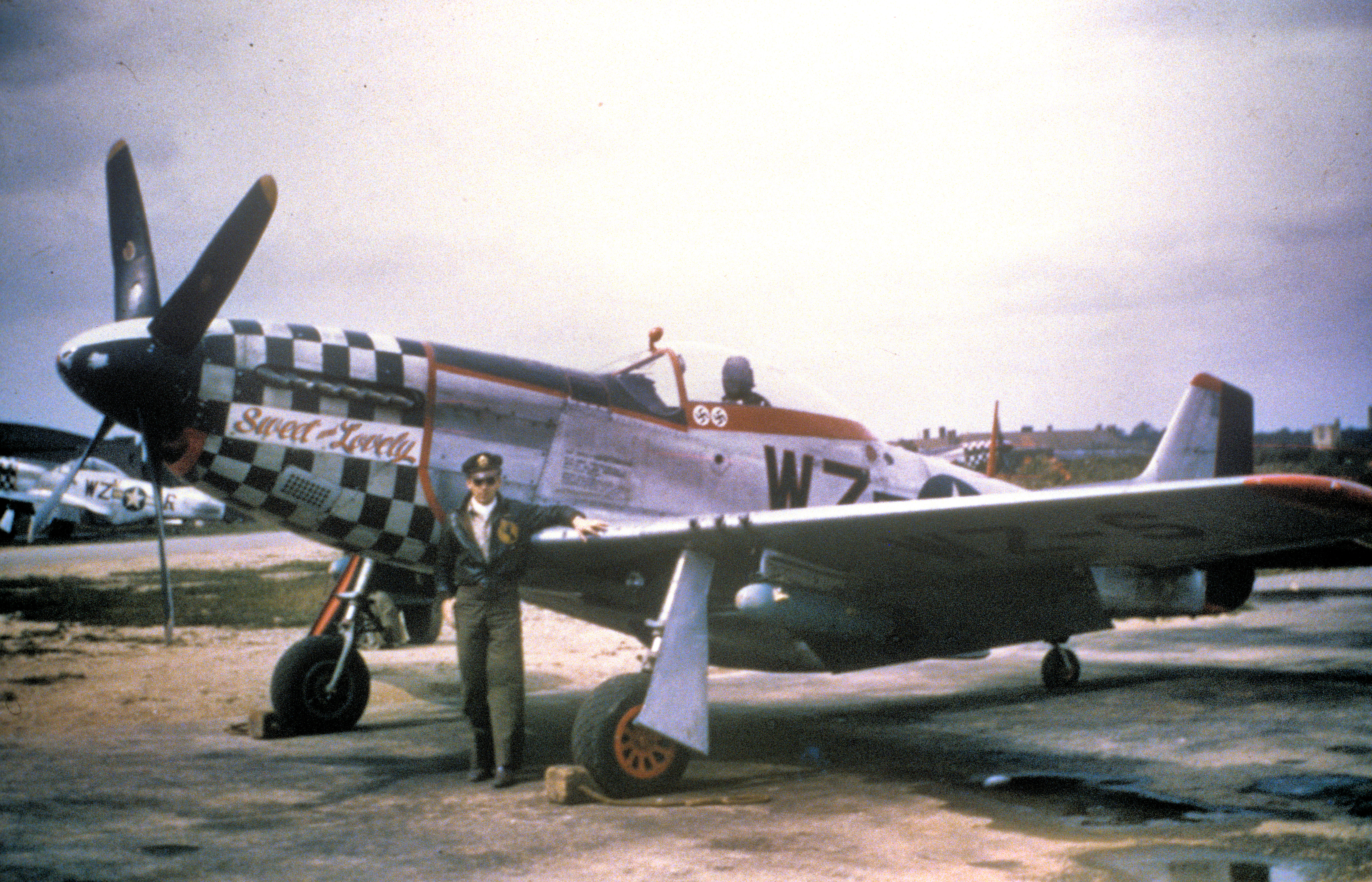 A P-51 Mustang aircraft - WZ-S (serial number 44-72218), named "Sweet and Lovely", of the 78th Fighter Group, Duxford. The aircraft was piloted by Lieutenant Thomas V. Thain. Handwritten on slide casing:"WZ-S Dx post VE Thomas V Thain".